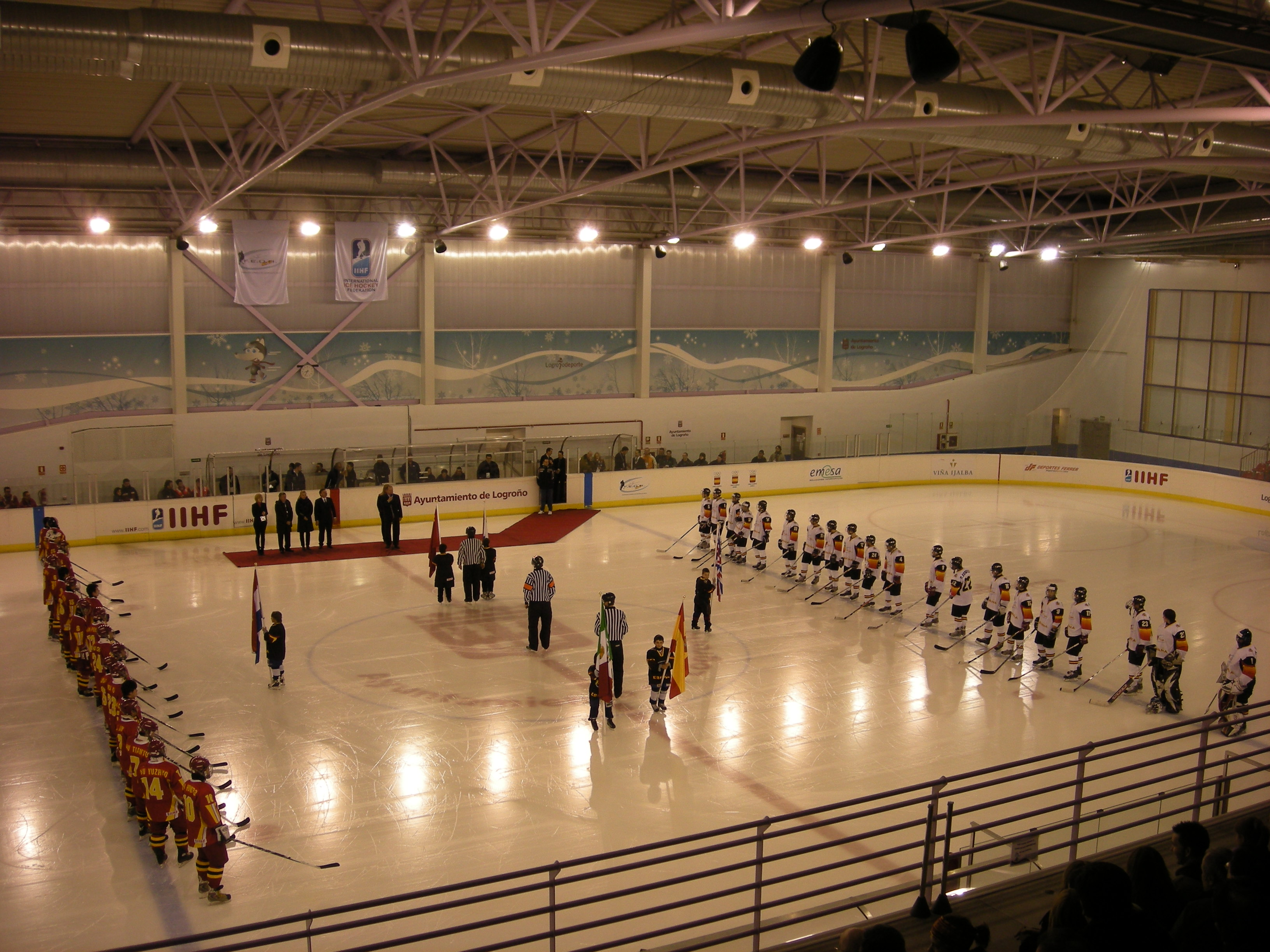 Opening ceremony of the Group B of the 2009 IIHF World U20 Championship Division II in the C.D.M. Lobete in Logroño, La Rioja, Spain.